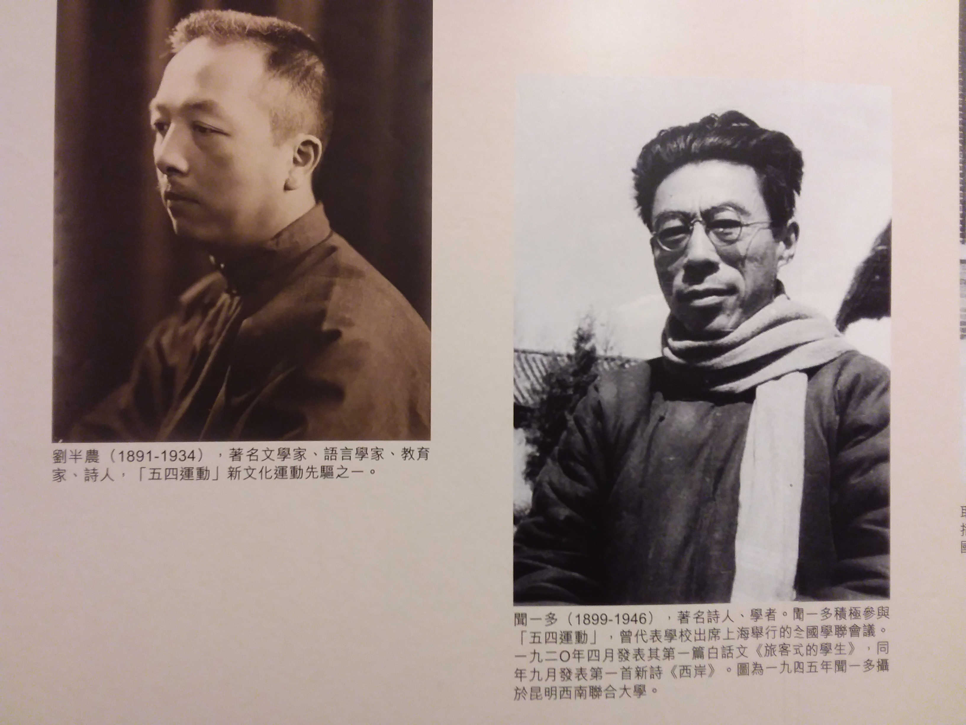 HKCL 香港中央圖書館 CWB 舊圖片展覽 old photos exhibition black & white 中華民國 ROChina 五四運動 1919-05-04 May Fourth Movement the 100th year in April 2019